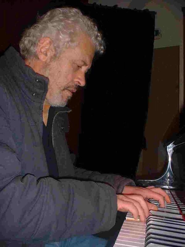 "classical" and jazz composer (pianist) Carlos Azevedo